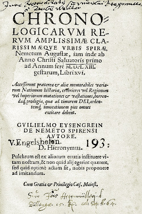 Titelblatt der ersten gedruckten Stadtgeschichte von Speyer, 1564, Wilhelm Eisengrein